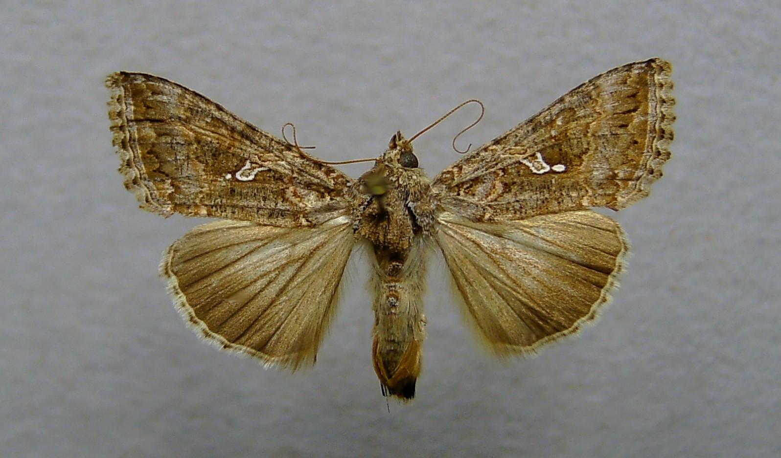 Trichoplusia ni